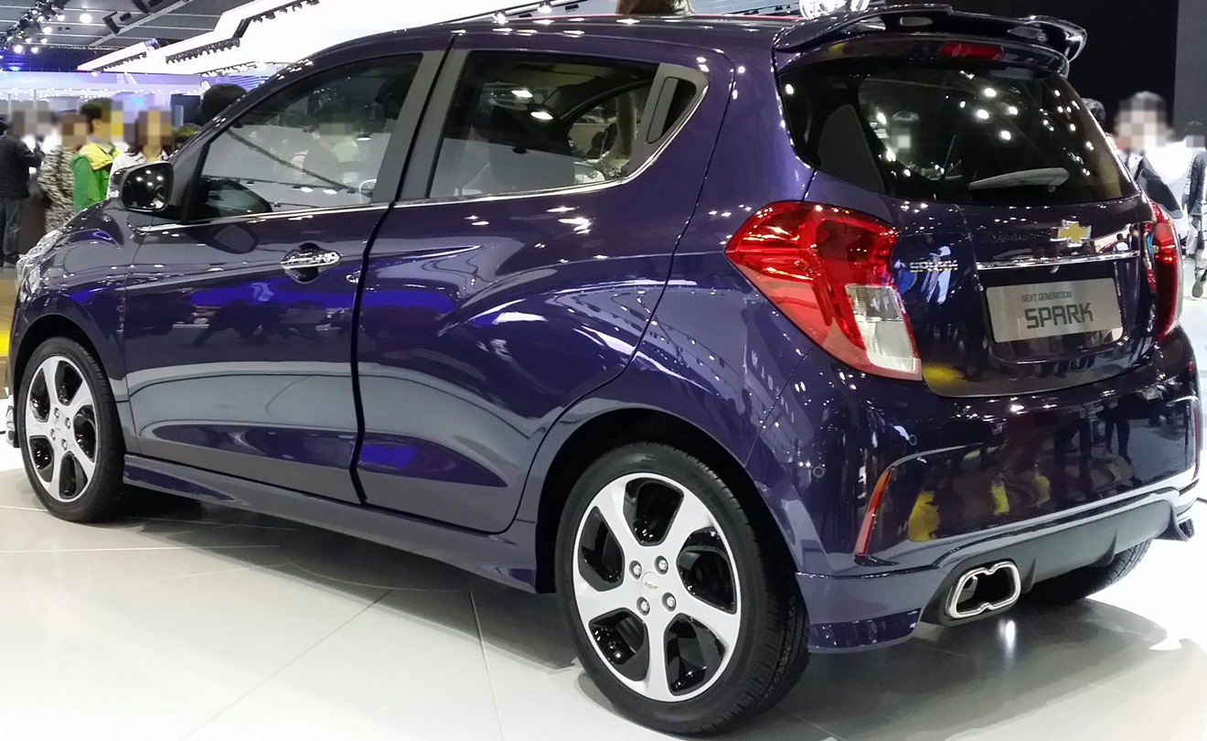 Chevrolet Spark